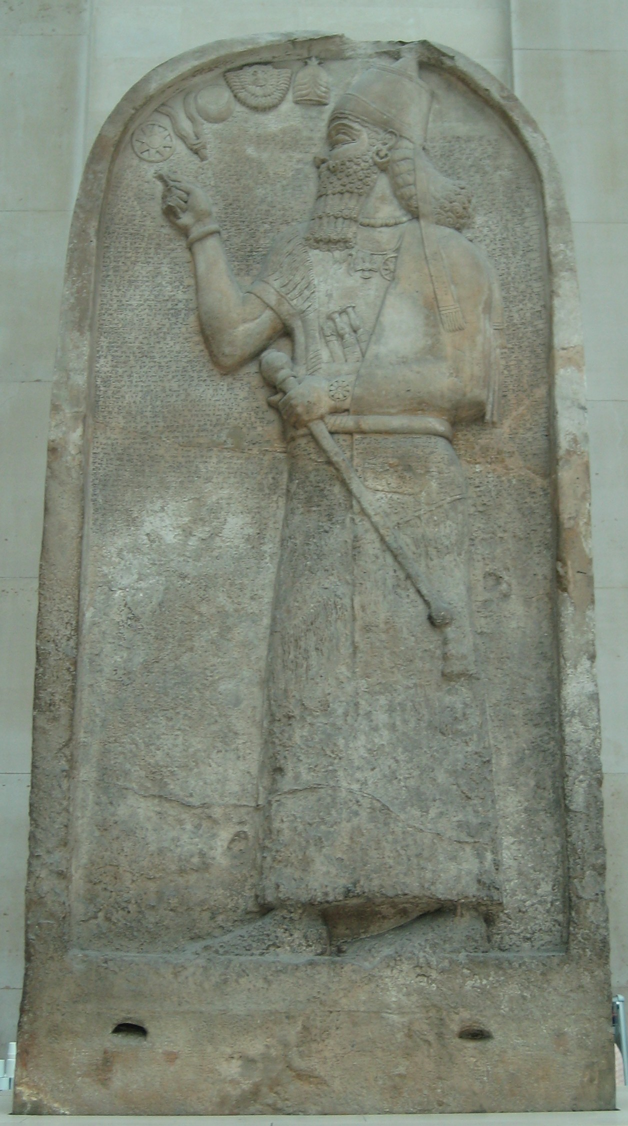 Alabaster stela of the Assyrian king Ashurnasirpal II.